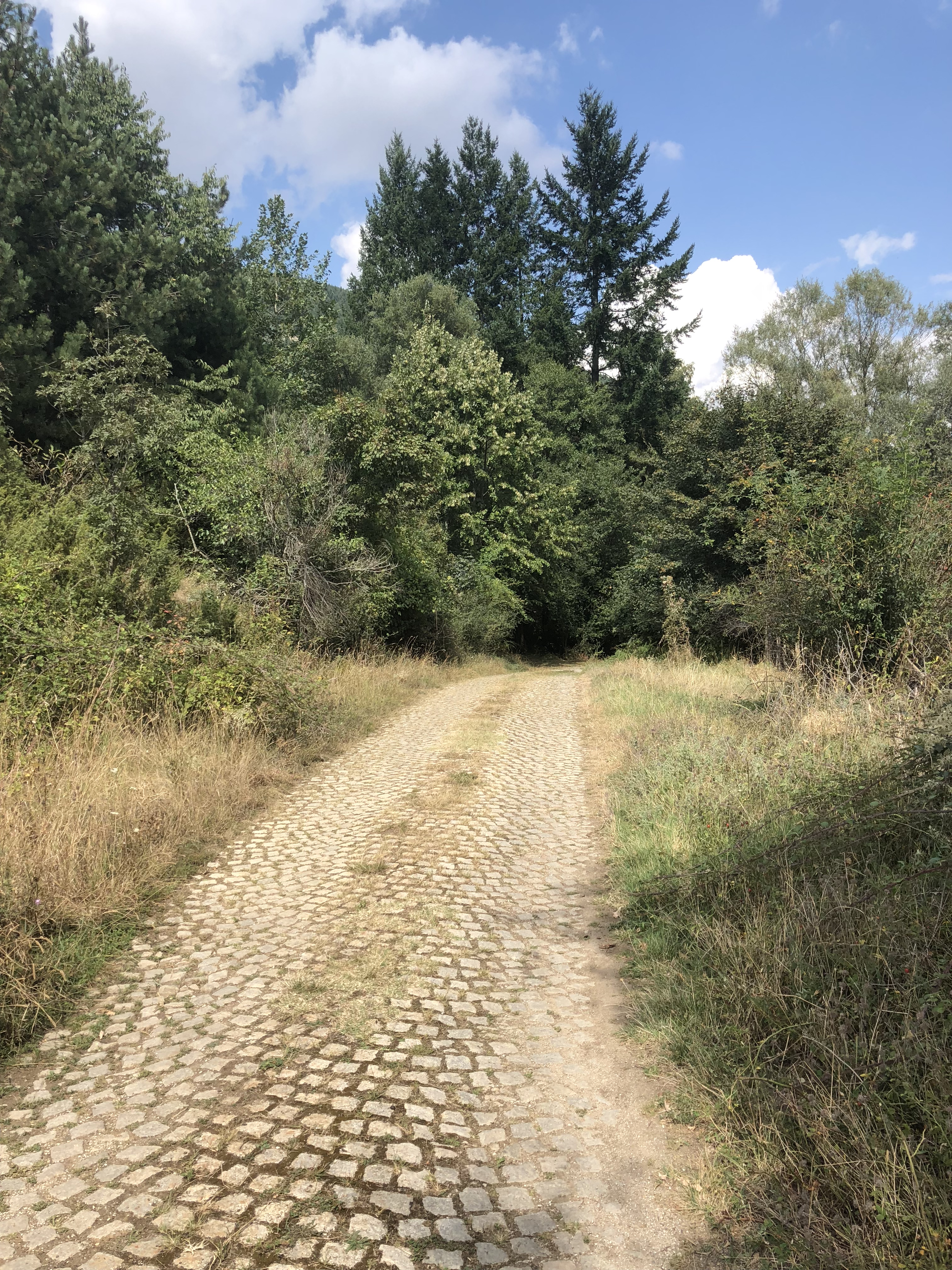 Old paved road near Dihovo, Macedonia